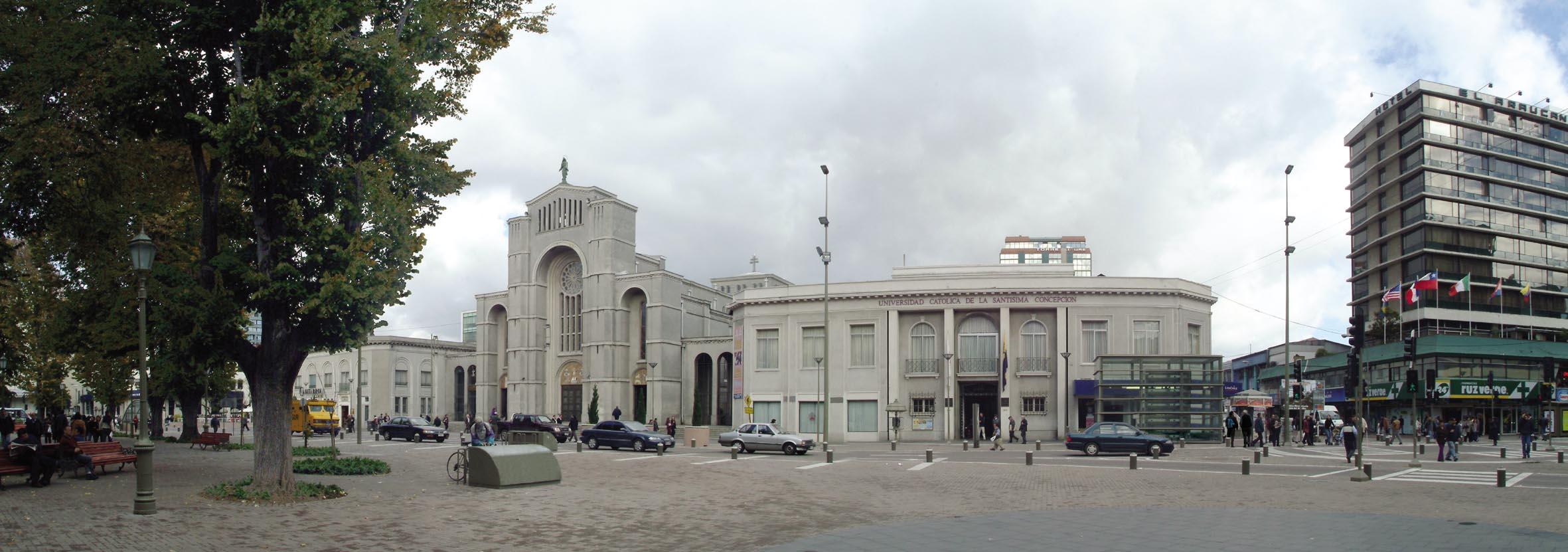 Casa Central UCSC